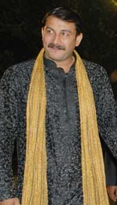 Indian actor Manoj Tiwari at the music launch of Gangotri